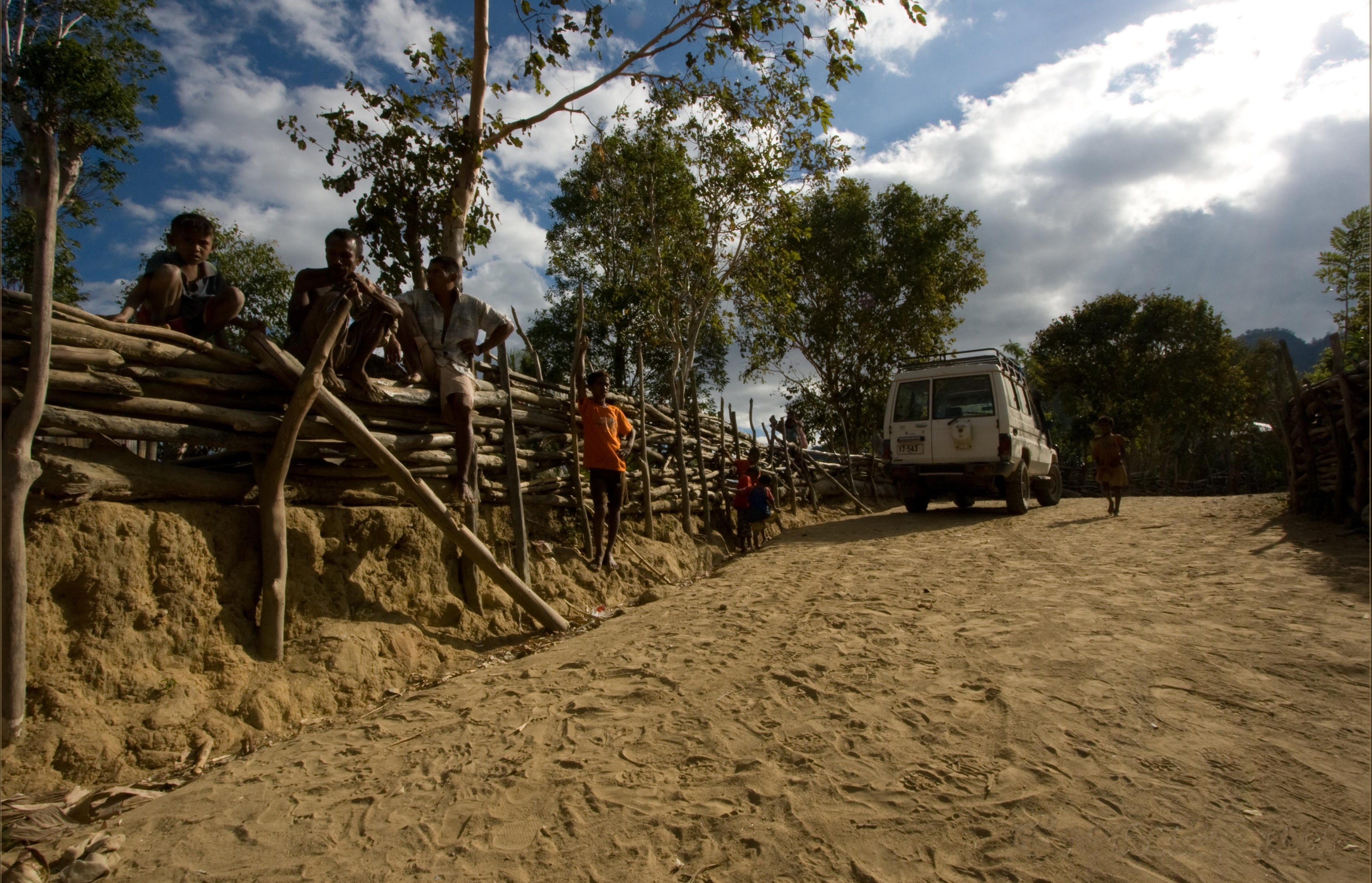 On the road with Caritas, remote part of Oecussi near Father Richards (close to Cutete, suco Costa).